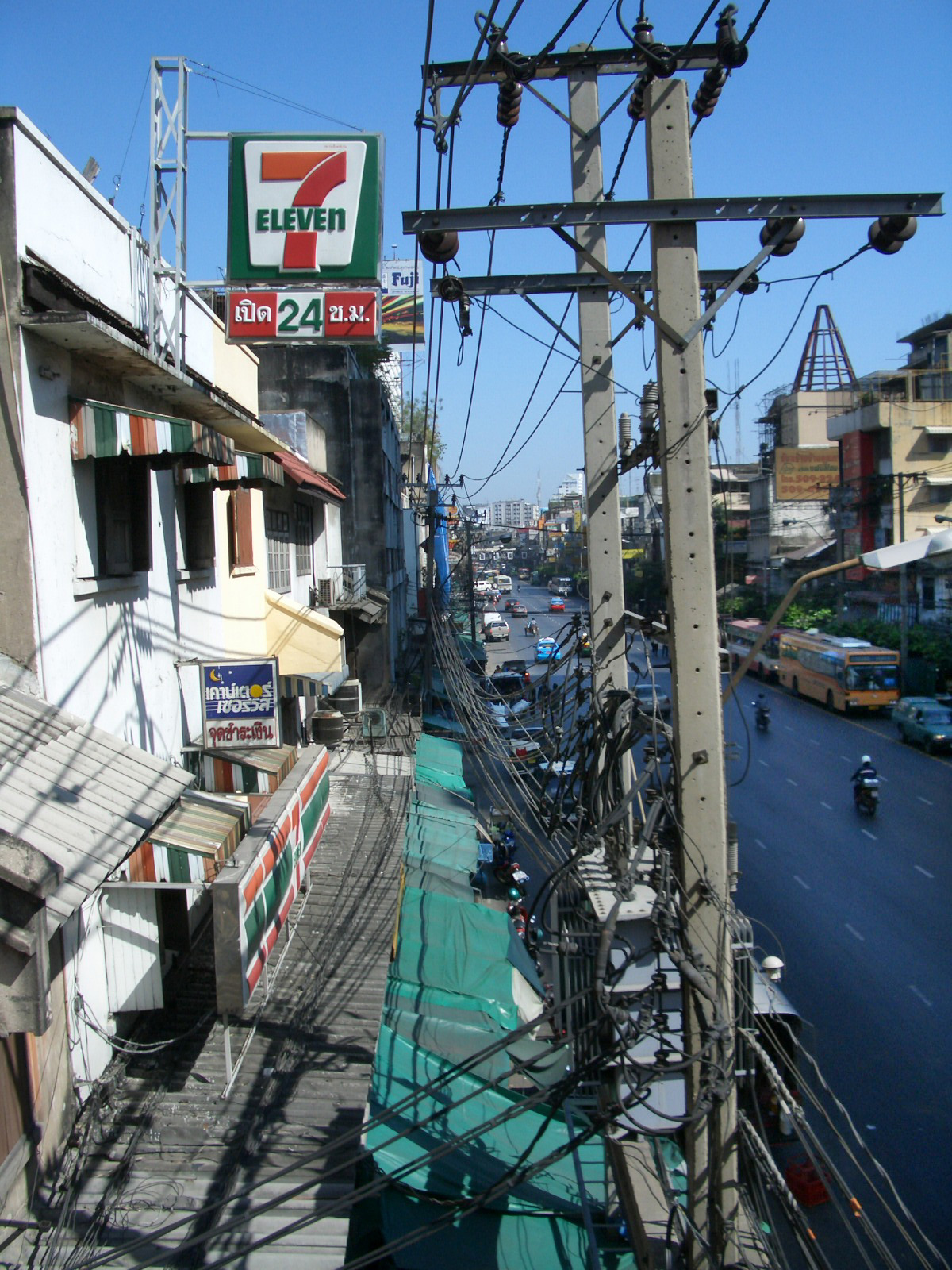 "Bangkok street" - view of a part of Pratunam Market (the green tent roofs middle picture) and Ratchaprarop Road, Bangkok, Thailand